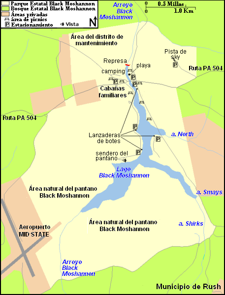 Map of Black Moshannon State Park, Centre County, Pennsylvania, USA